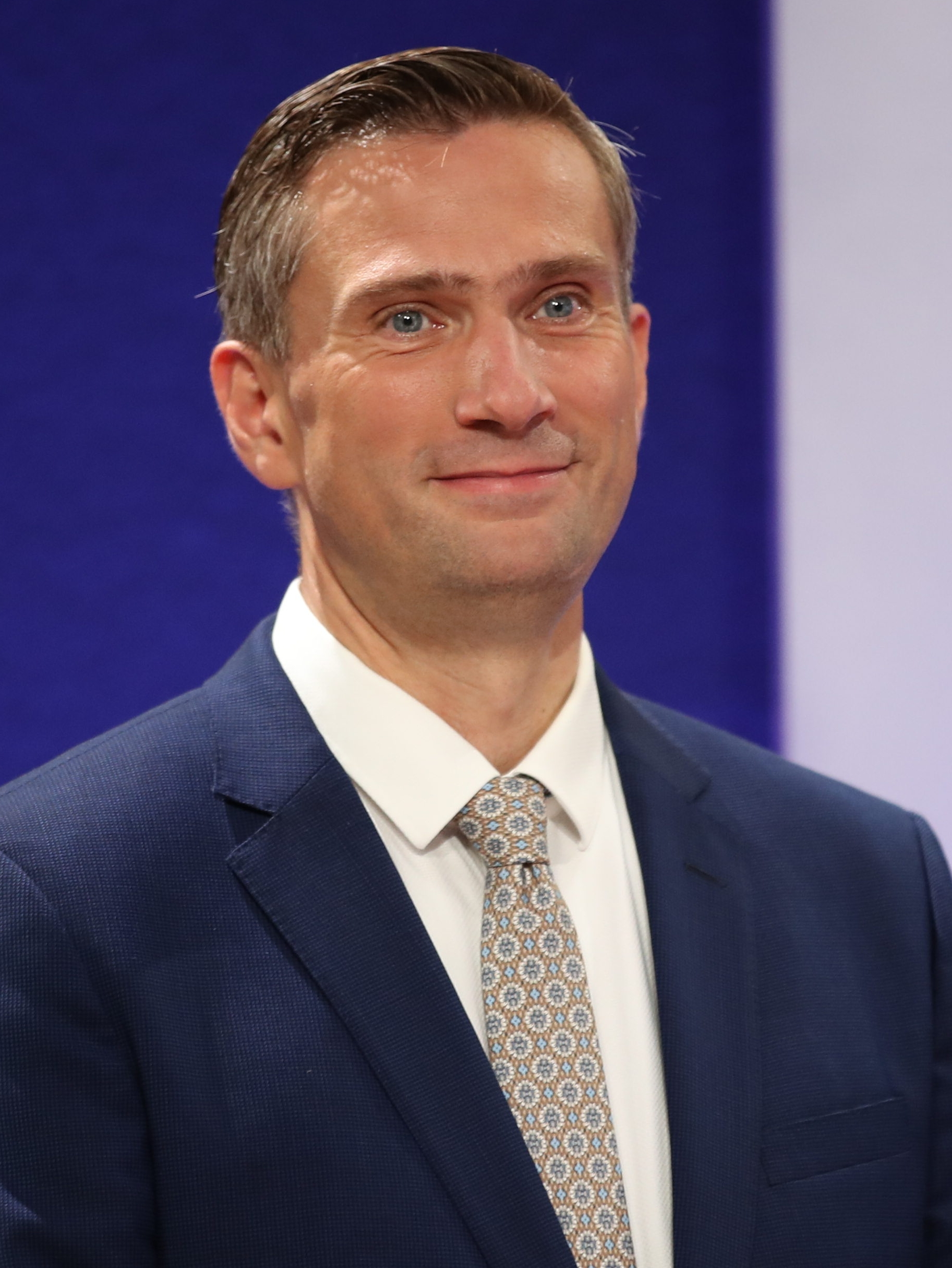 Election night Saxony 2019: Martin Dulig (SPD)